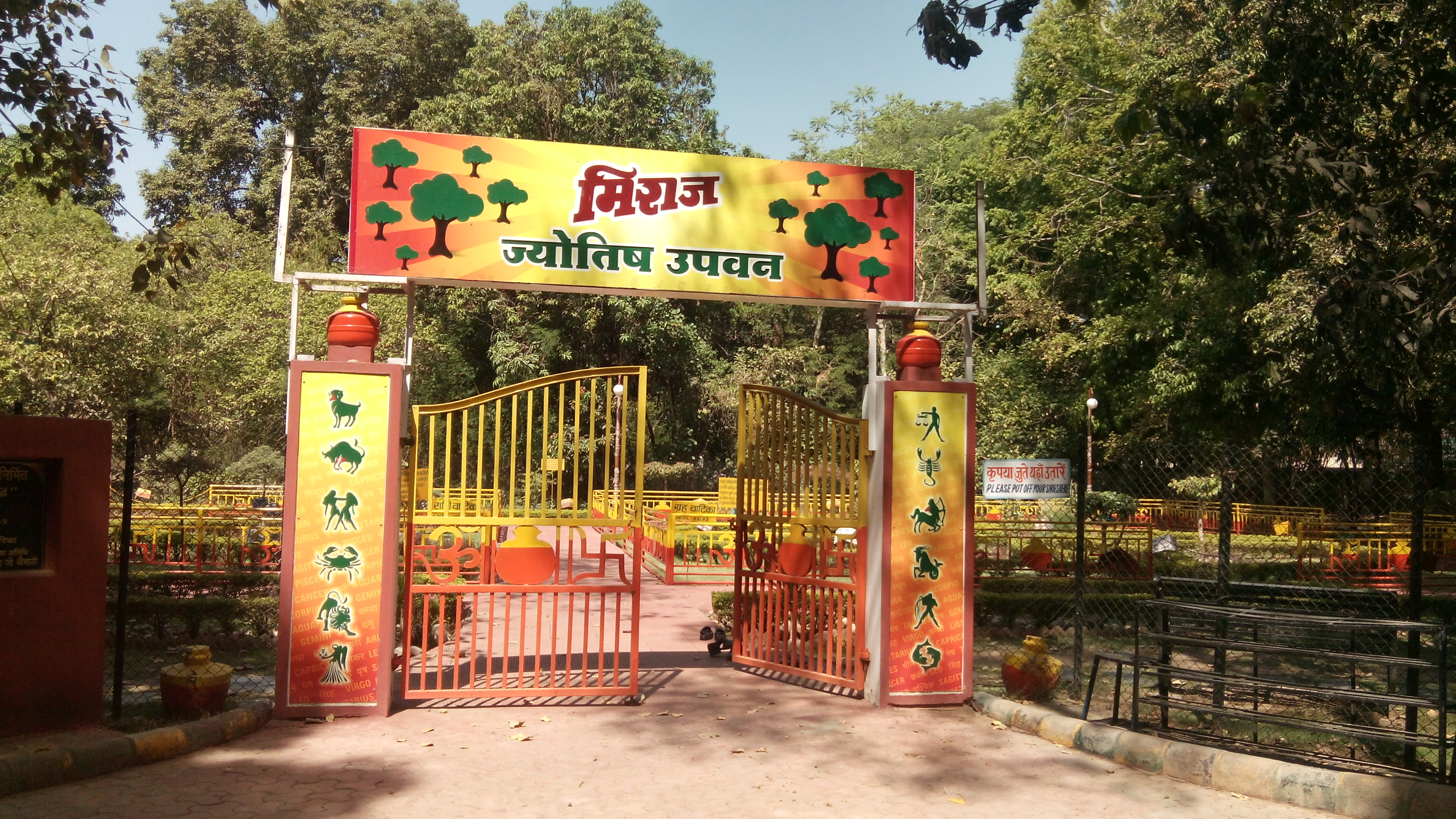 Picture showing the entrance of Miraj Jyotish Upvan, an acupressure park situated inside Gulab Bagh garden, Udaipur